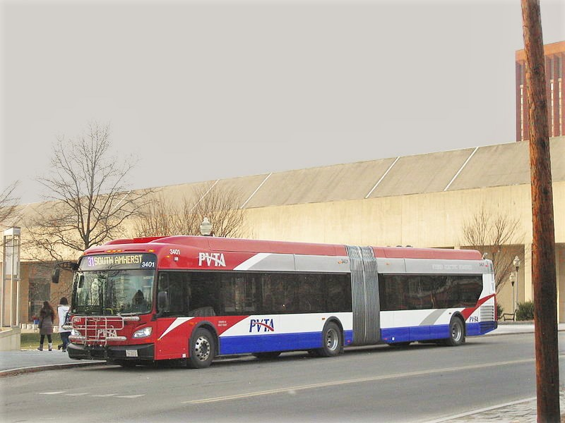 Pioneer Valley Transit Authority/University of Massachusetts New Flyer Xcelsior XDE60 #3401 makes a stop at the Fine Arts Center on North Pleasant Street on the Pink-31 route, bound for South Amherst.